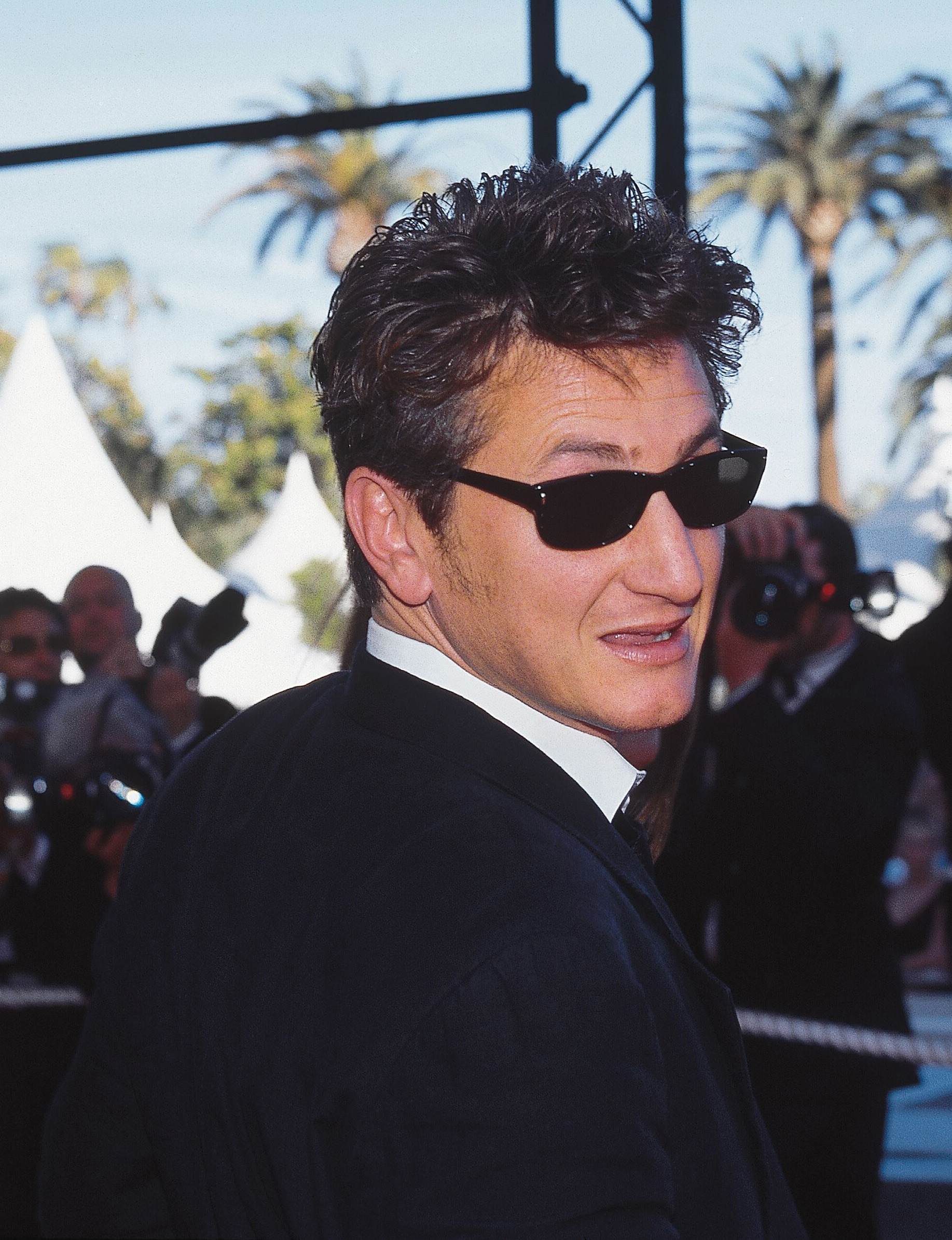 Penn Sean in Cannes in 2000. My own picture.